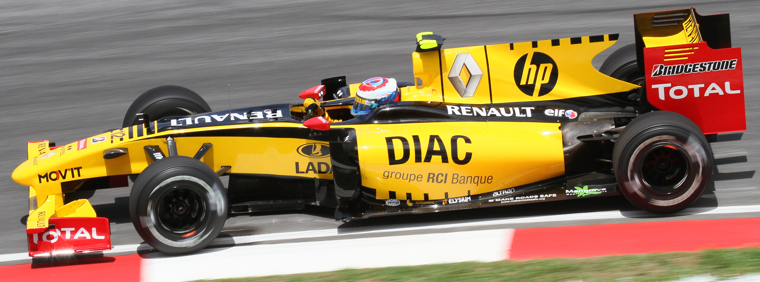 Formula One 2010 Rd.3 Malaysian GP: Vitaly Petrov (Renault) during Friday 2nd Free Practice session.